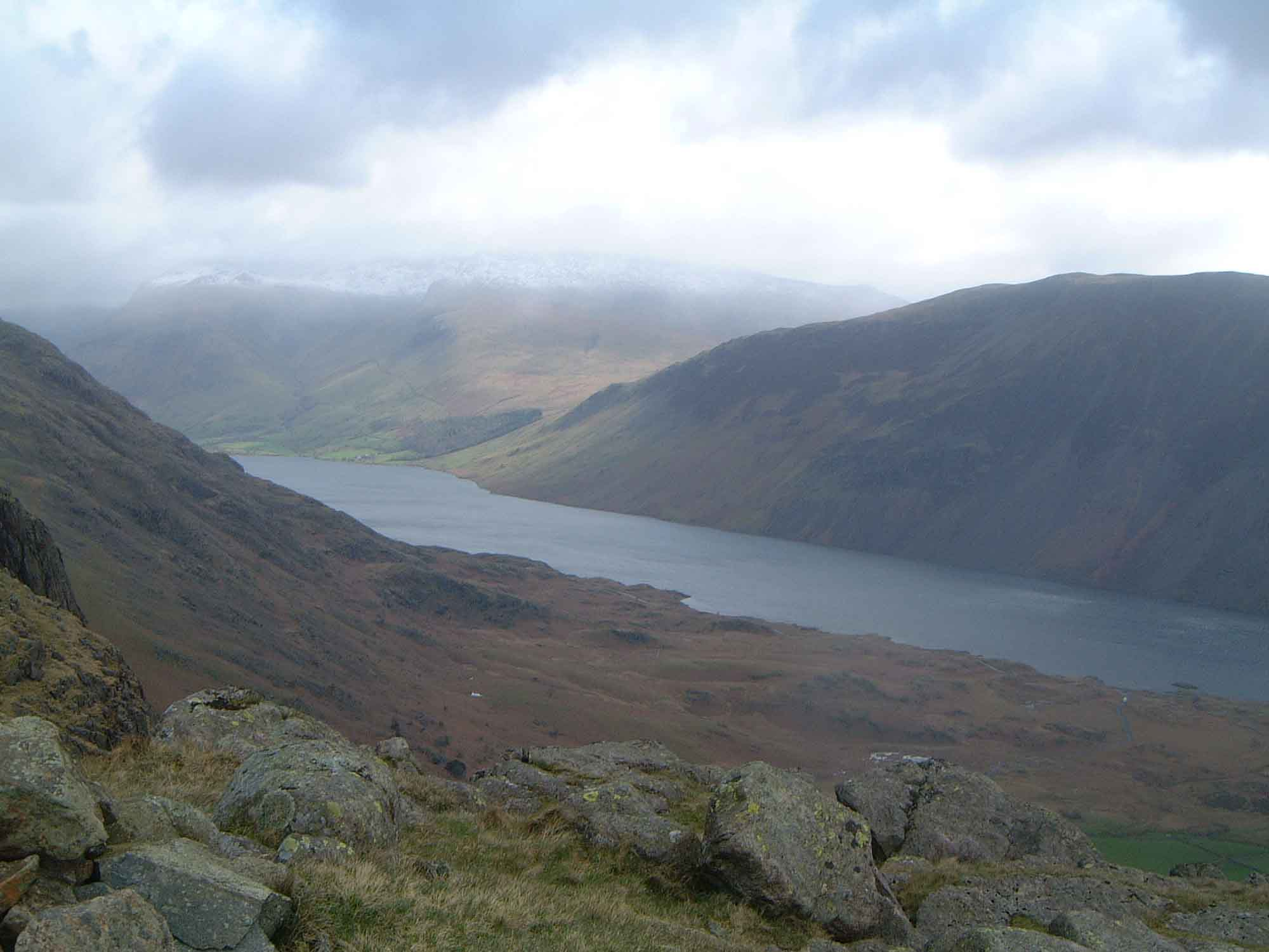 Personal photograph taken by Mick Knapton on April 15th 2005.